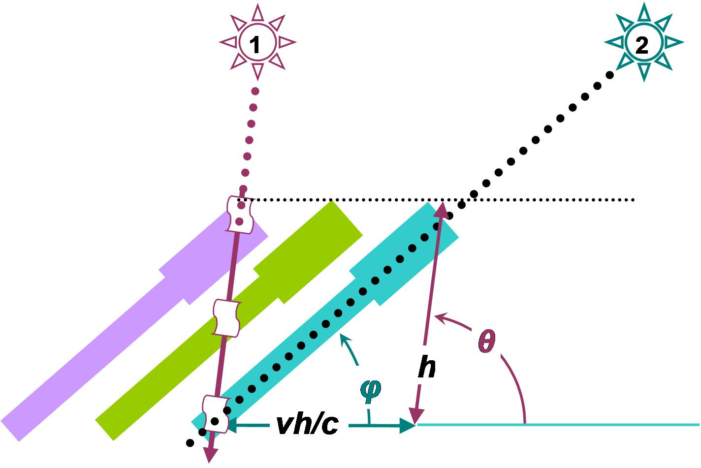 Stellar aberration